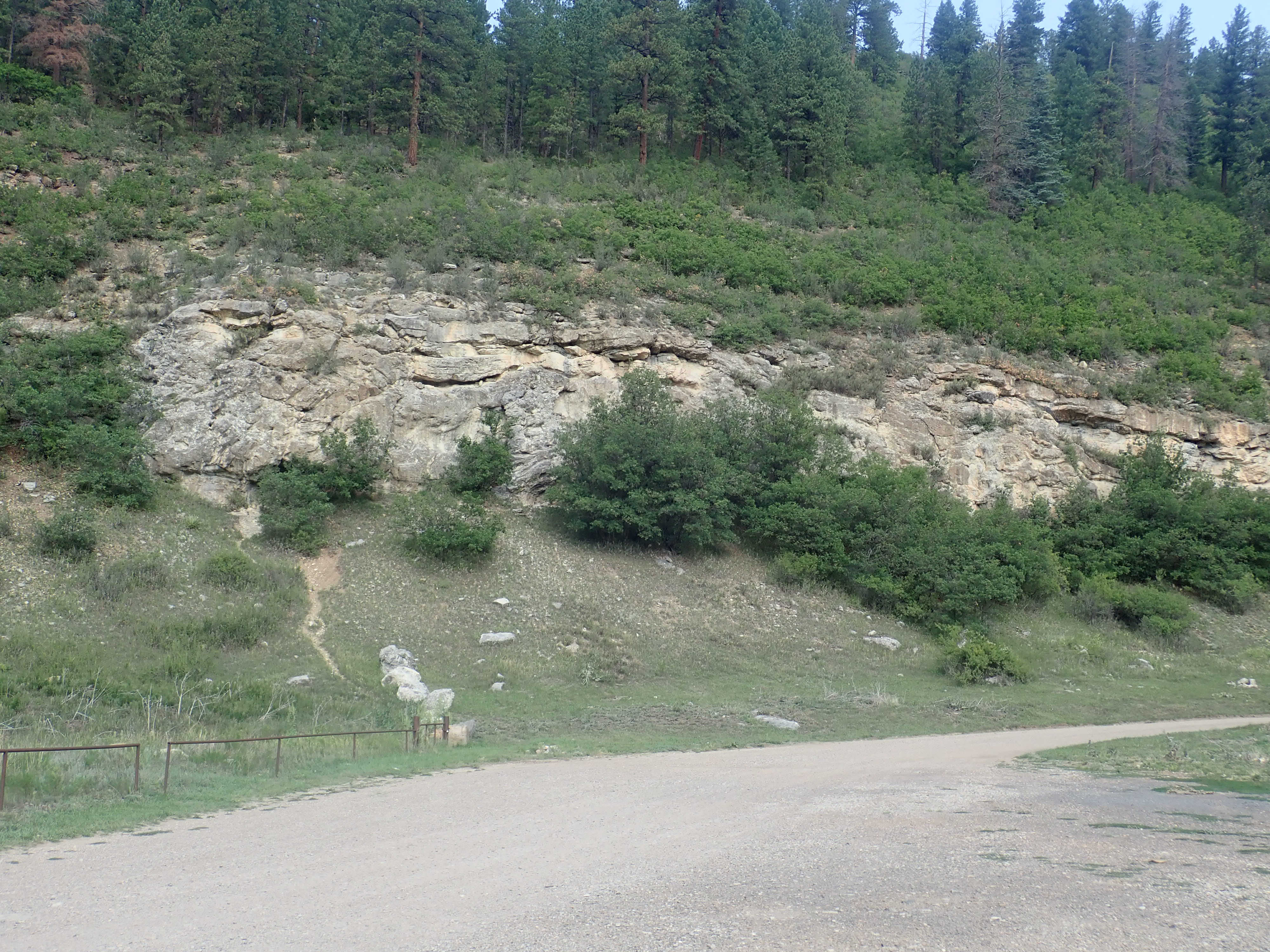 This image shows the Tererro Formation a short distance north of its type section near Tererro, New Mexico, USA. The Tererro Formation is a Mississippian limestone formation.